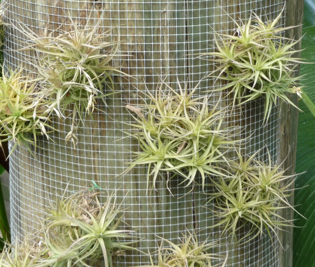 Tillandsia bergeri Parc des Buttes-Chaumont